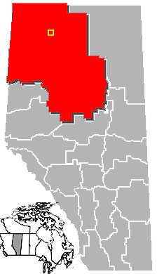 Location of High Level, Census Division No. 17, Albera